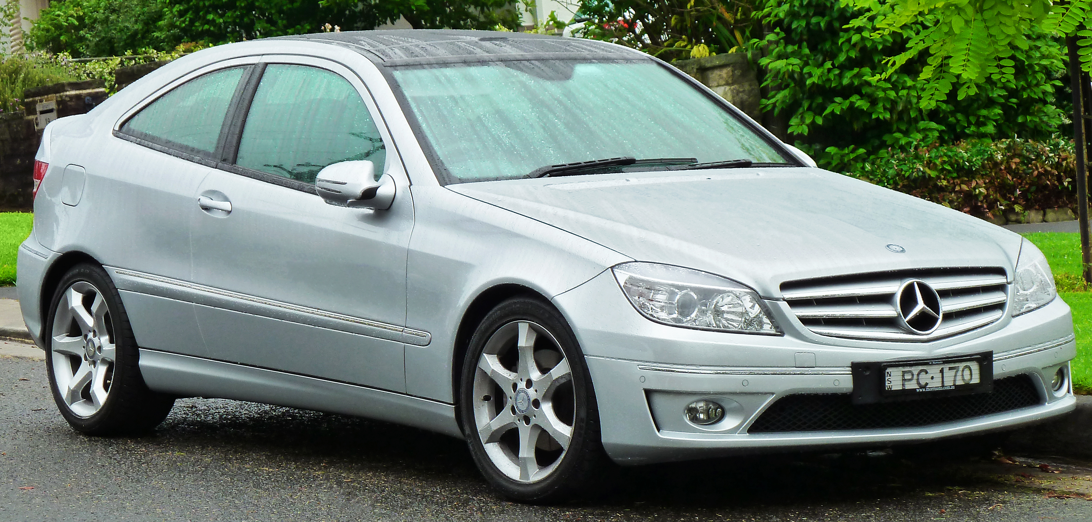 2008–2011 Mercedes-Benz CLC 200 Kompressor (CL 203) hatchback. Photographed in Roseville, New South Wales, Australia.